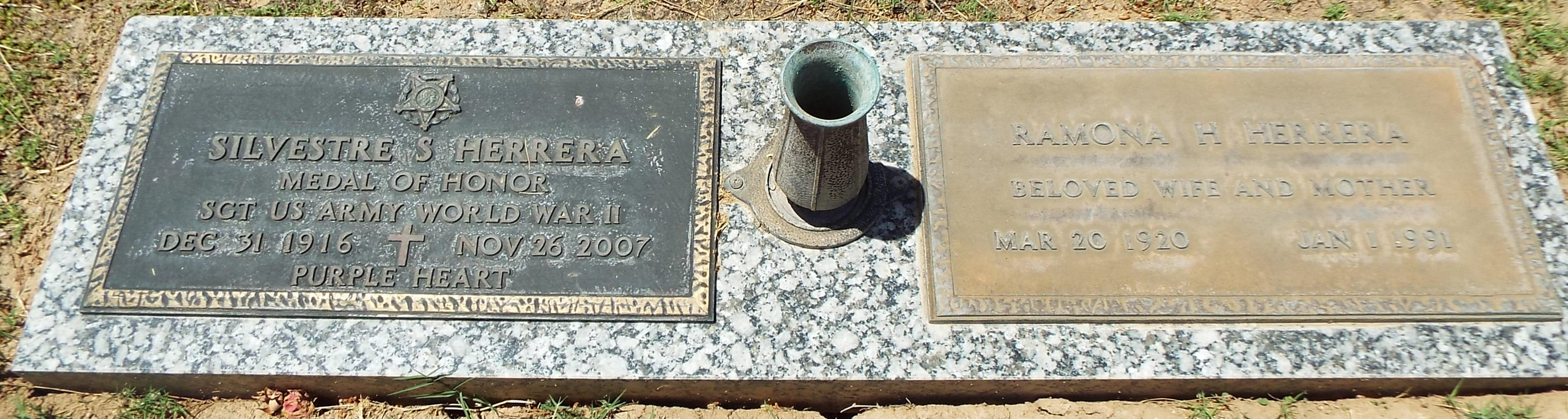 Grave site of Silvestre Sanatana Herrera, WW II Medal of honor recipient and his wife Romona Hererra in Resthaven Park Cemetery in Glendale, AZ.